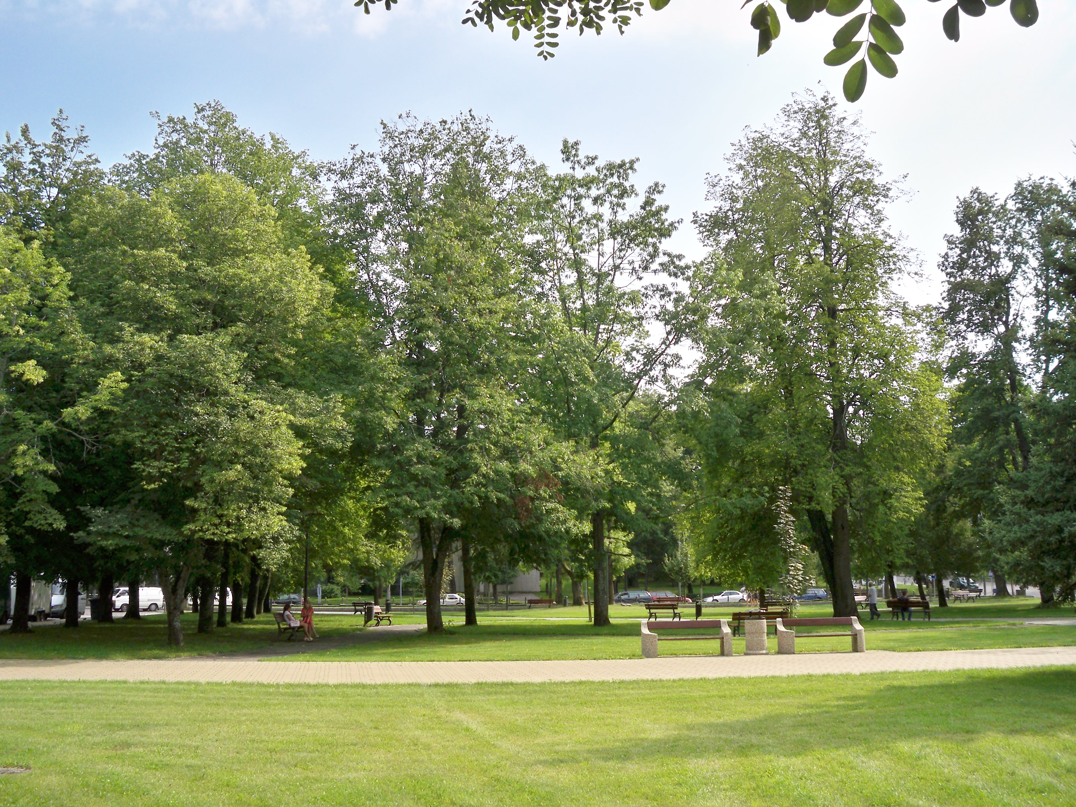 Zarasai center park.